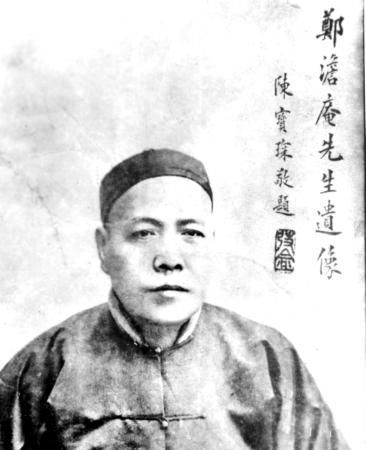 Zheng Xiguang, Hanlin of the late Qing Dynasty.